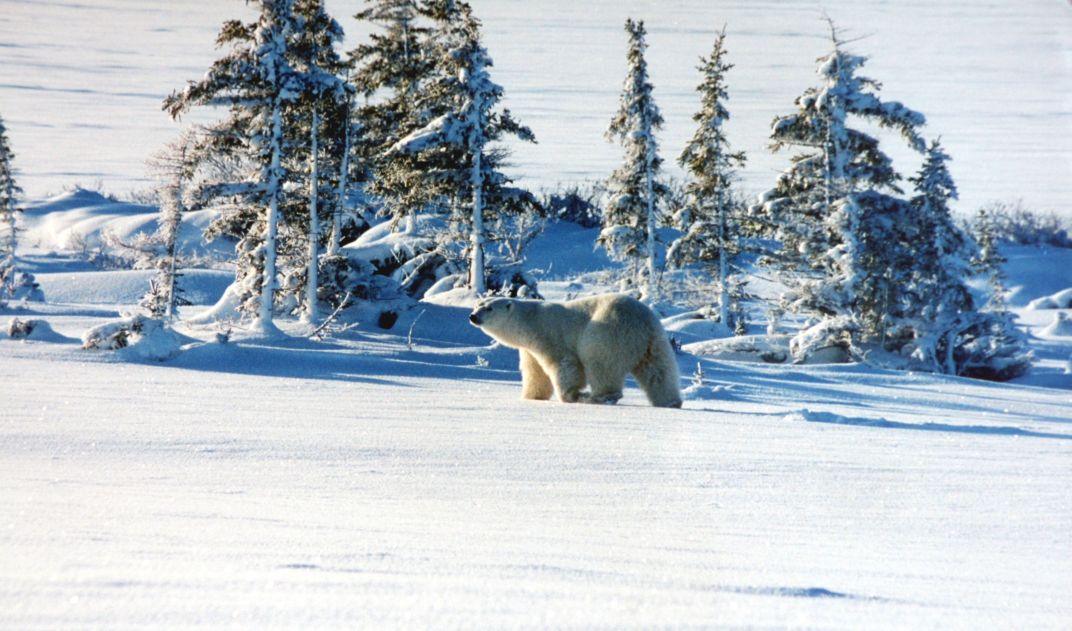 A Polar bear in Churchill. Photograped by Brocken Inaglory